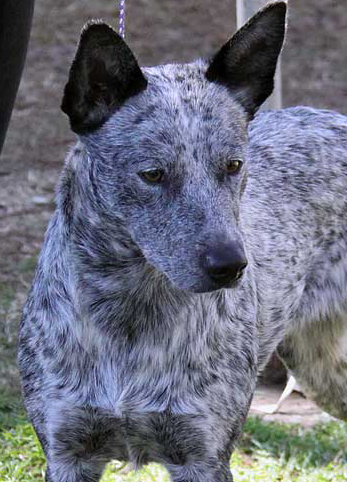 Australian Stumpy Tail Cattle Dog